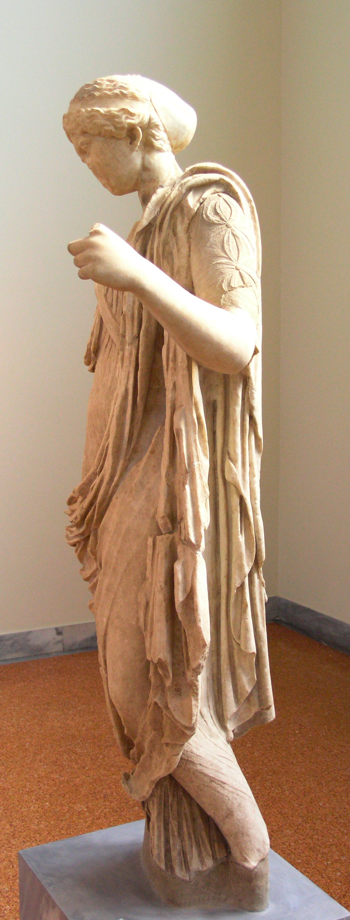 Statue of Aphrodite bearing weapons, in marble from Paros, found in Epidaurus. Roman copy of an original from the Polykleitos school, ca. 400 BC